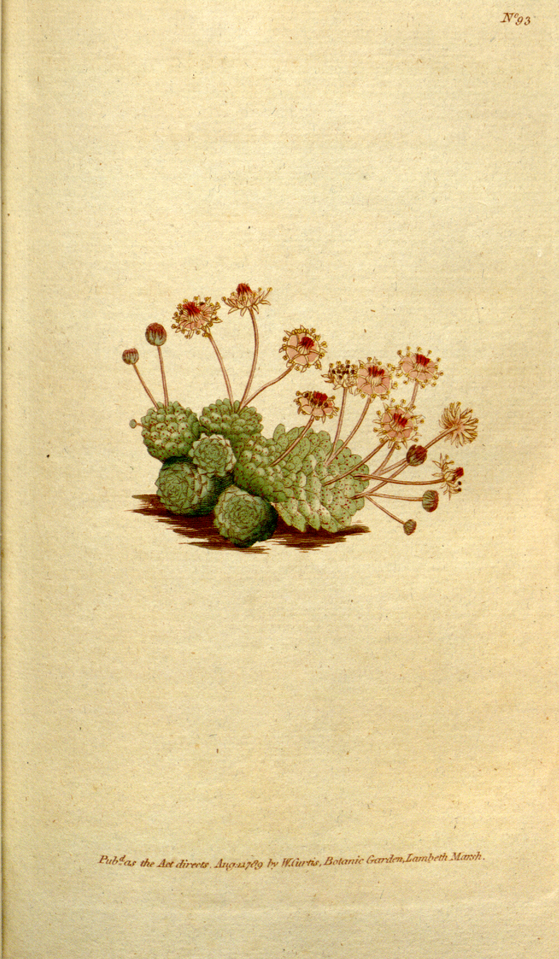 This is a plate from The Botanical Magazine, Volume 3.